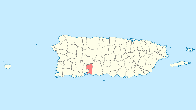 Municipal locator of Puerto Rico